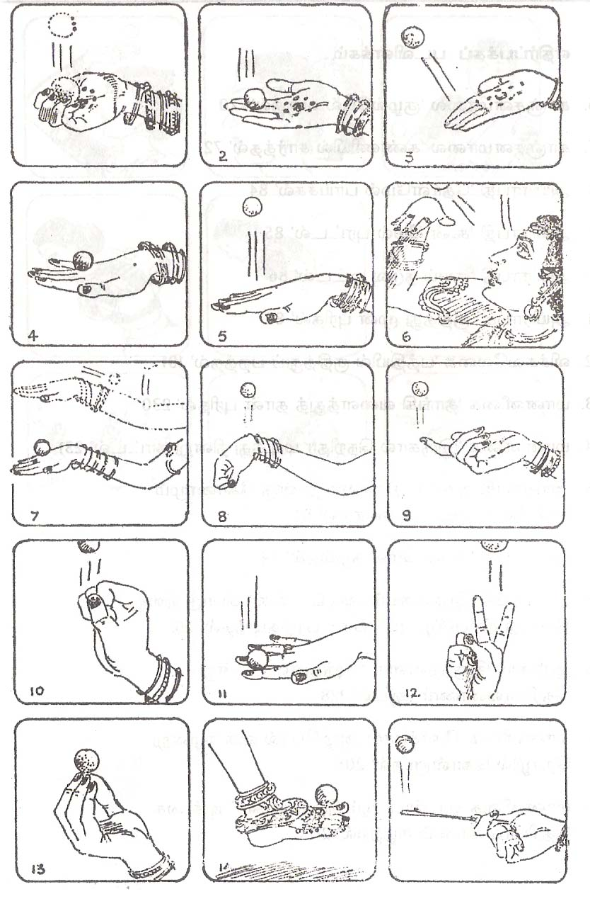 Games of India, Juggling balls, as per Perunkathai, a Tamil literature of 7th century